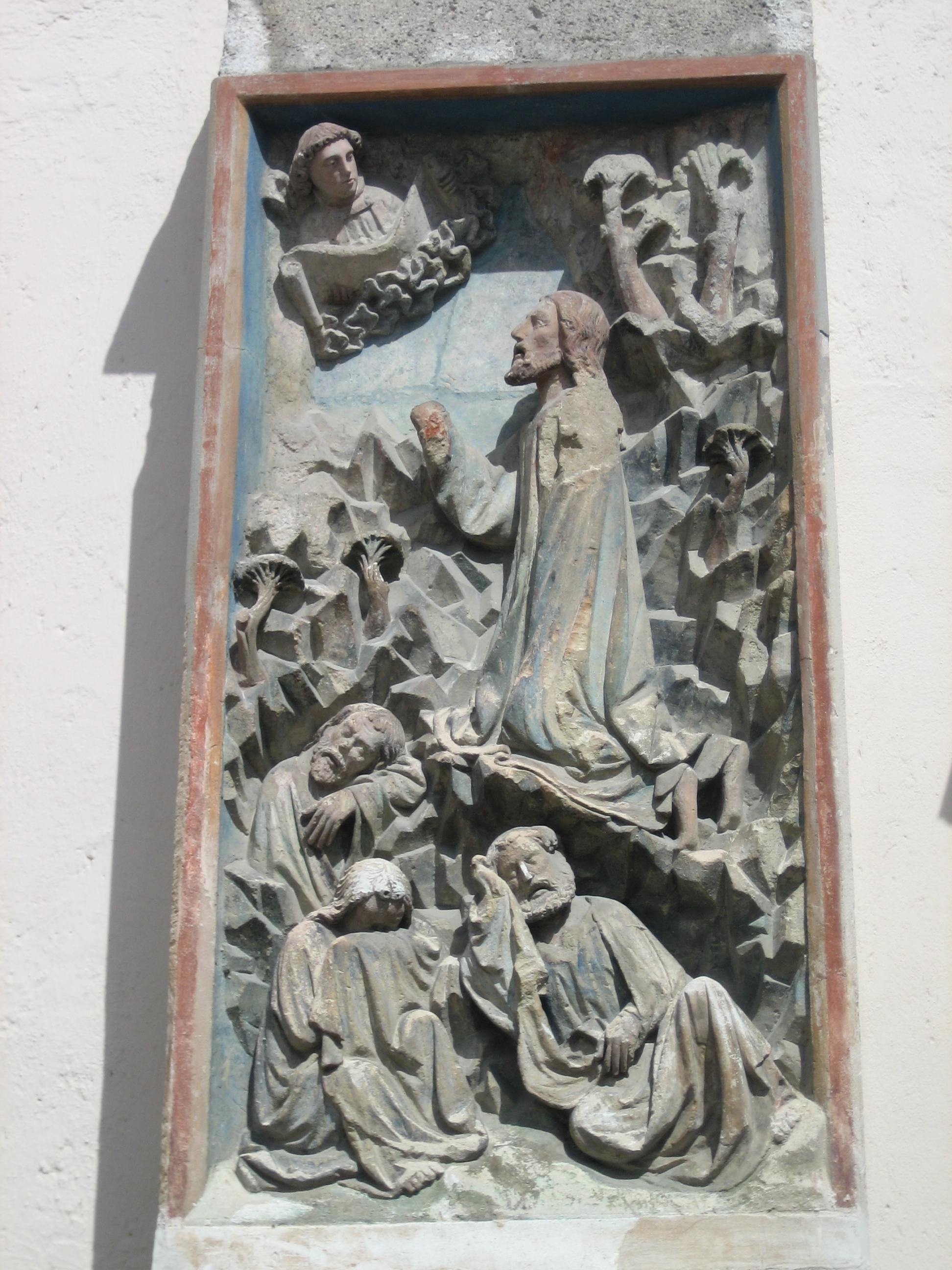 Waidhofen an der Ybbs, Lower Austria, Austria: Jesus in the garden of gethsemane. Gothic stone embossment (13. century) situated on the outside of the wall of the main church.